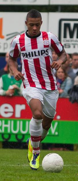 Memphis Depay playing for PSV Eindhoven.